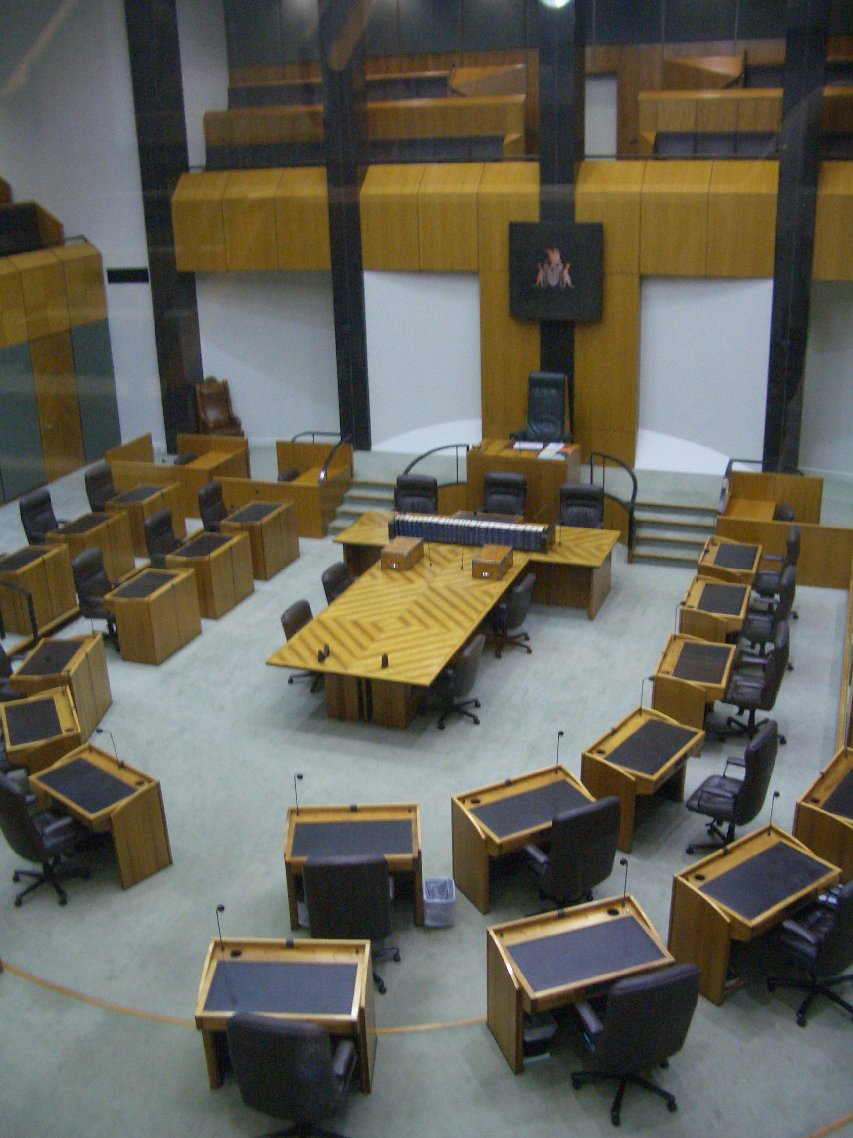 Chamber of the Northern Territory Legislative Assembly, taken on my own camera